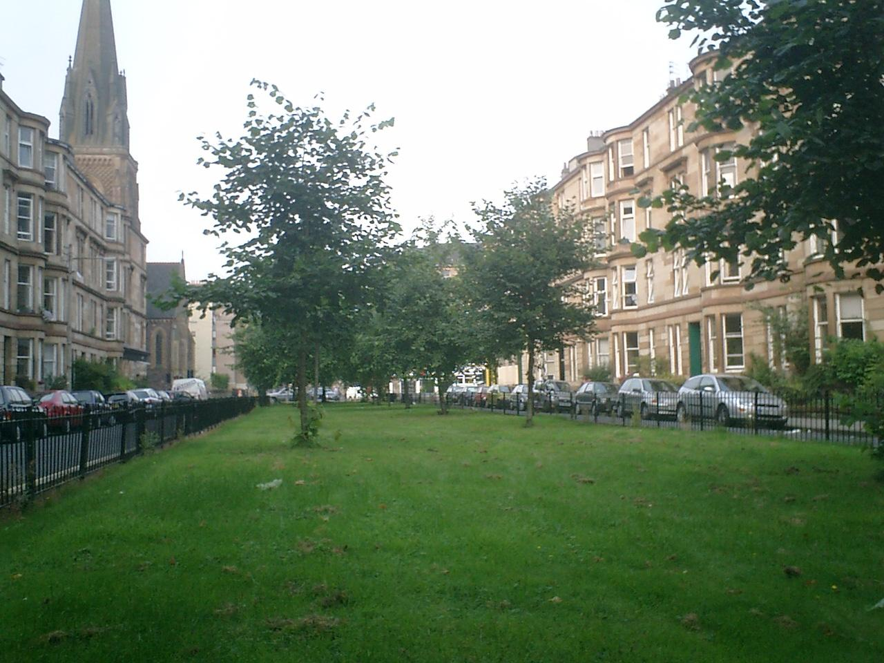 I took this photo myself of Woodlands Drive in Woodlands, Glasgow, sometime in 2003.